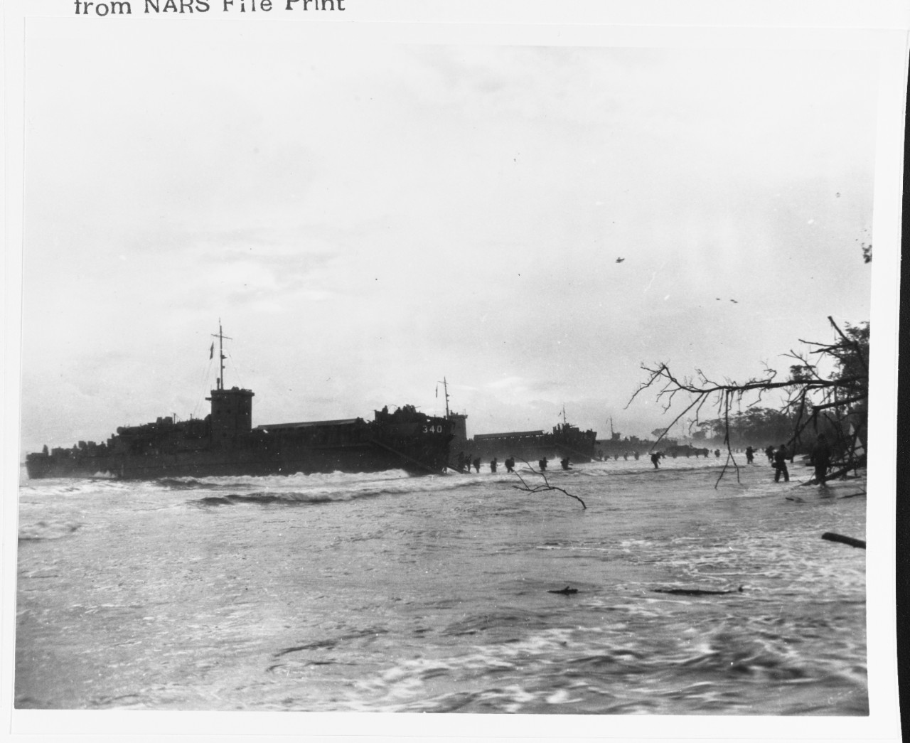 USS LCI-340 and other LCI's landing troops on New Guinea, in the Tor River/ Toem area, circa 17-18 May 1944. Next two LCI's are LCI-72 and LCI-332.